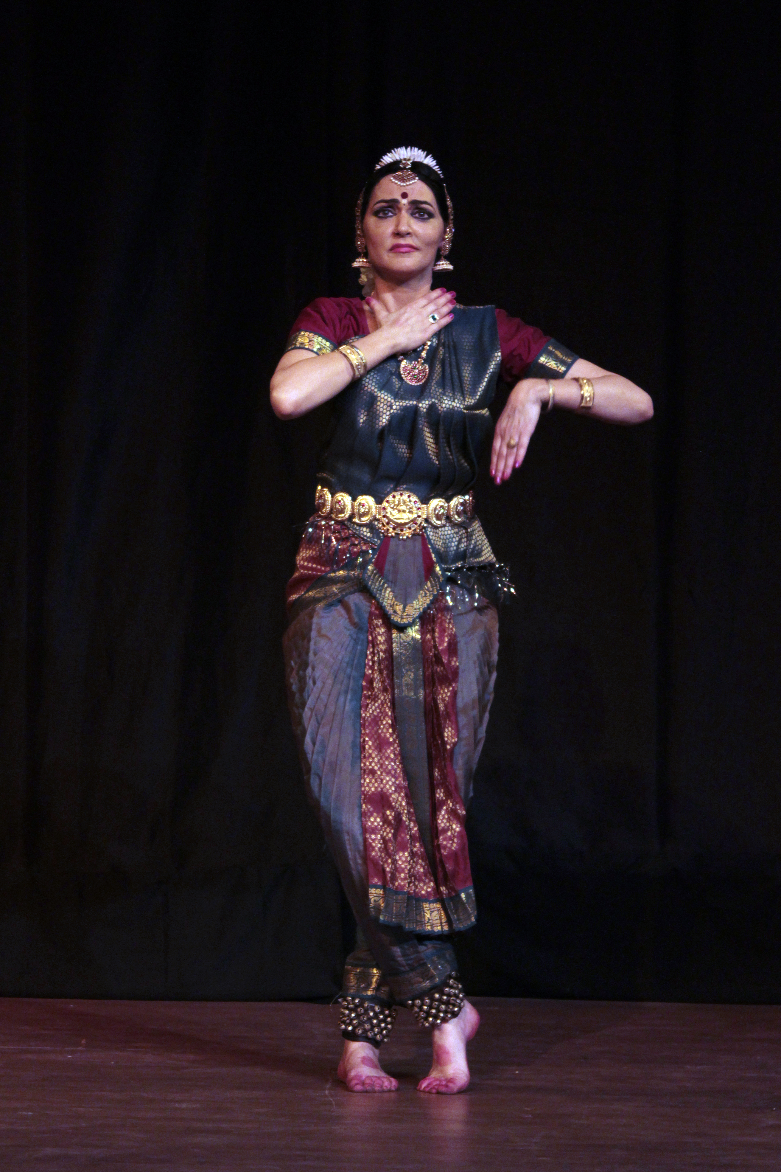 Bharatanatyam Facial expressions Mudra